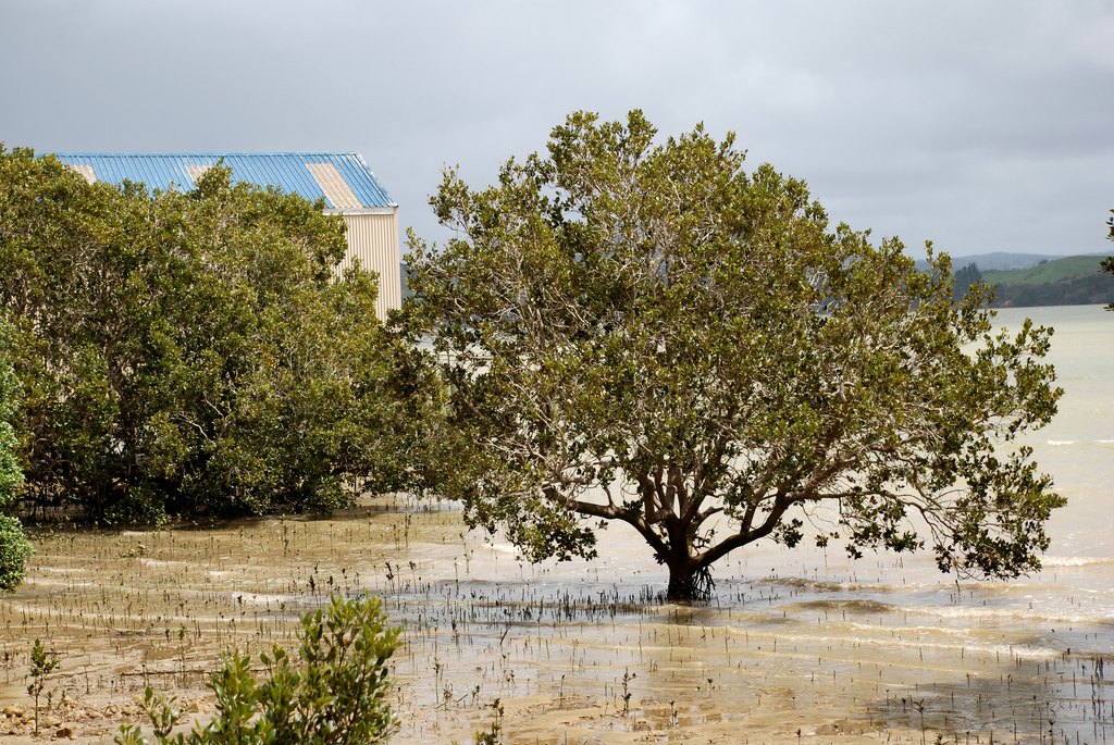 Mangroves, Whangaroa, Northland, New Zealand